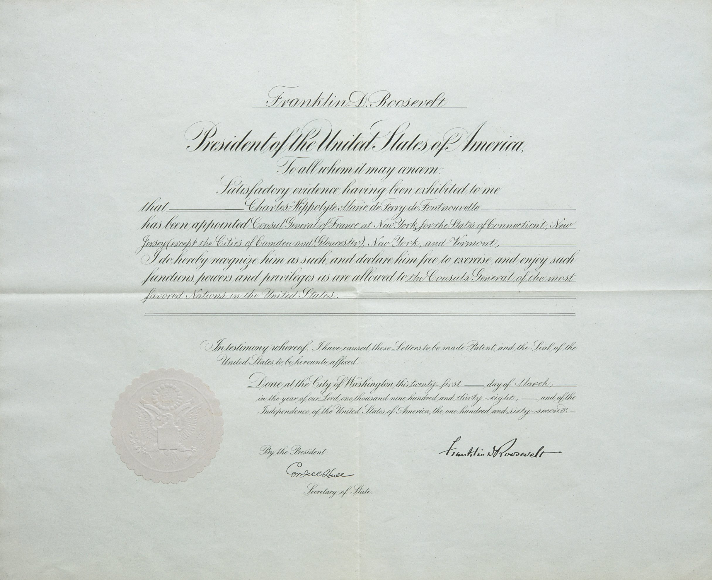 An exequatur signed by Franklin D. Roosevelt in 1938 to authorize the French Consul General in New York City, Charles de Ferry de Fontnouvelle, to conduct diplomatic business for France in the U.S. Exequaturs were sealed with the Great Seal of the United States, and their use was discontinued by the U.S. in 1971.